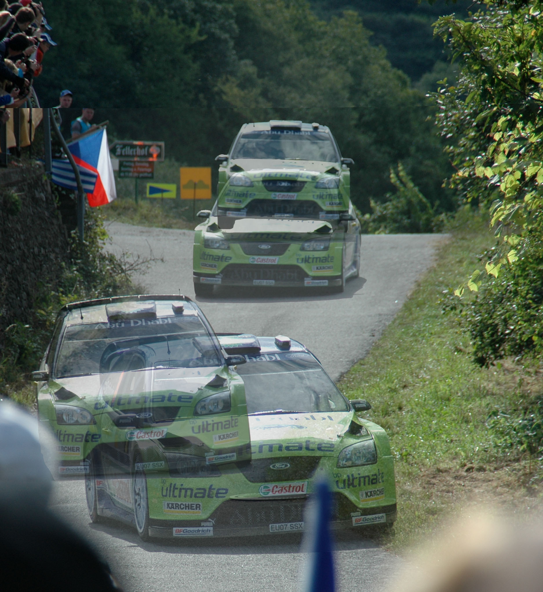 Marcus Grönholm driving his Ford Focus RS WRC 07 at the 2007 Rallye Deutschland.